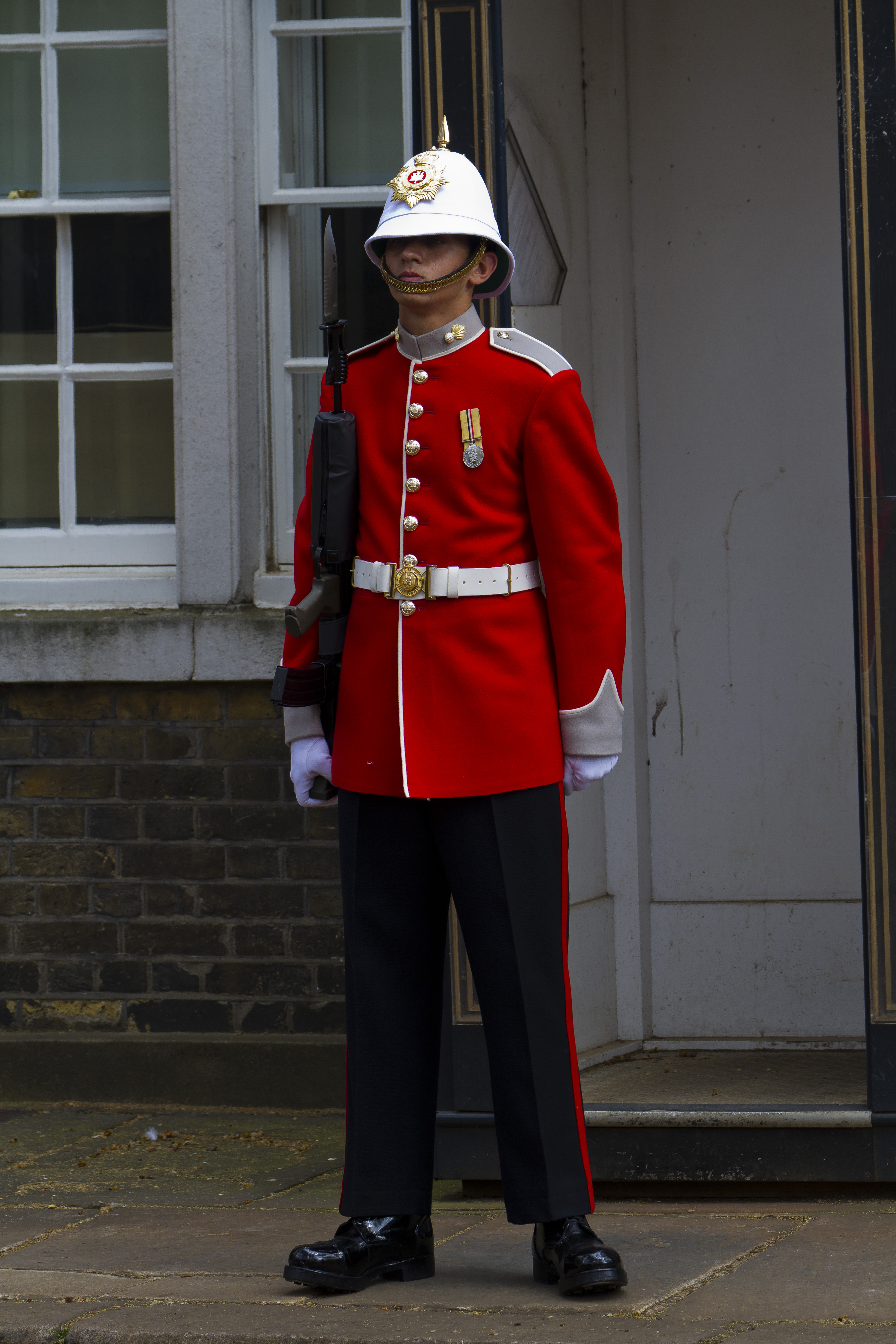 Changing of the Guard - Royal Gibraltar Regiment sentry